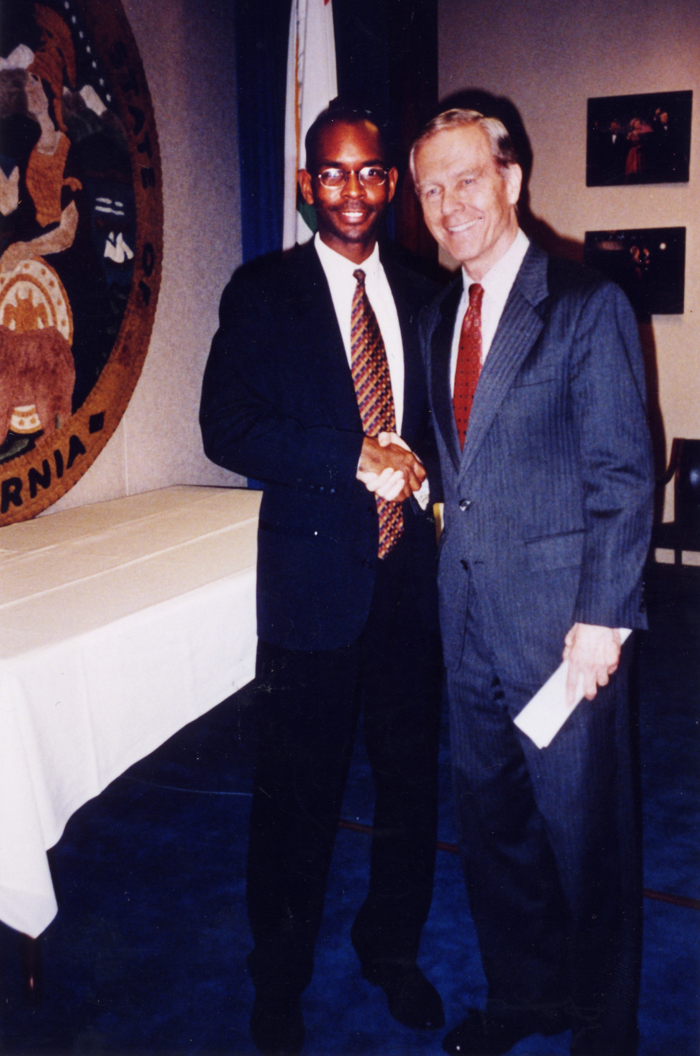 Photo of Marcus Hardie who was Special Assistant and Staff Attorney to Governor Pete Wilson of California.